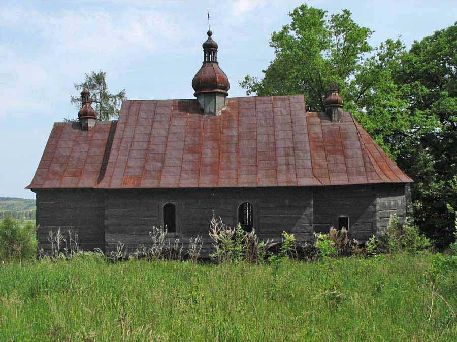 Chyrzynka (Poland), Greek Catholic church